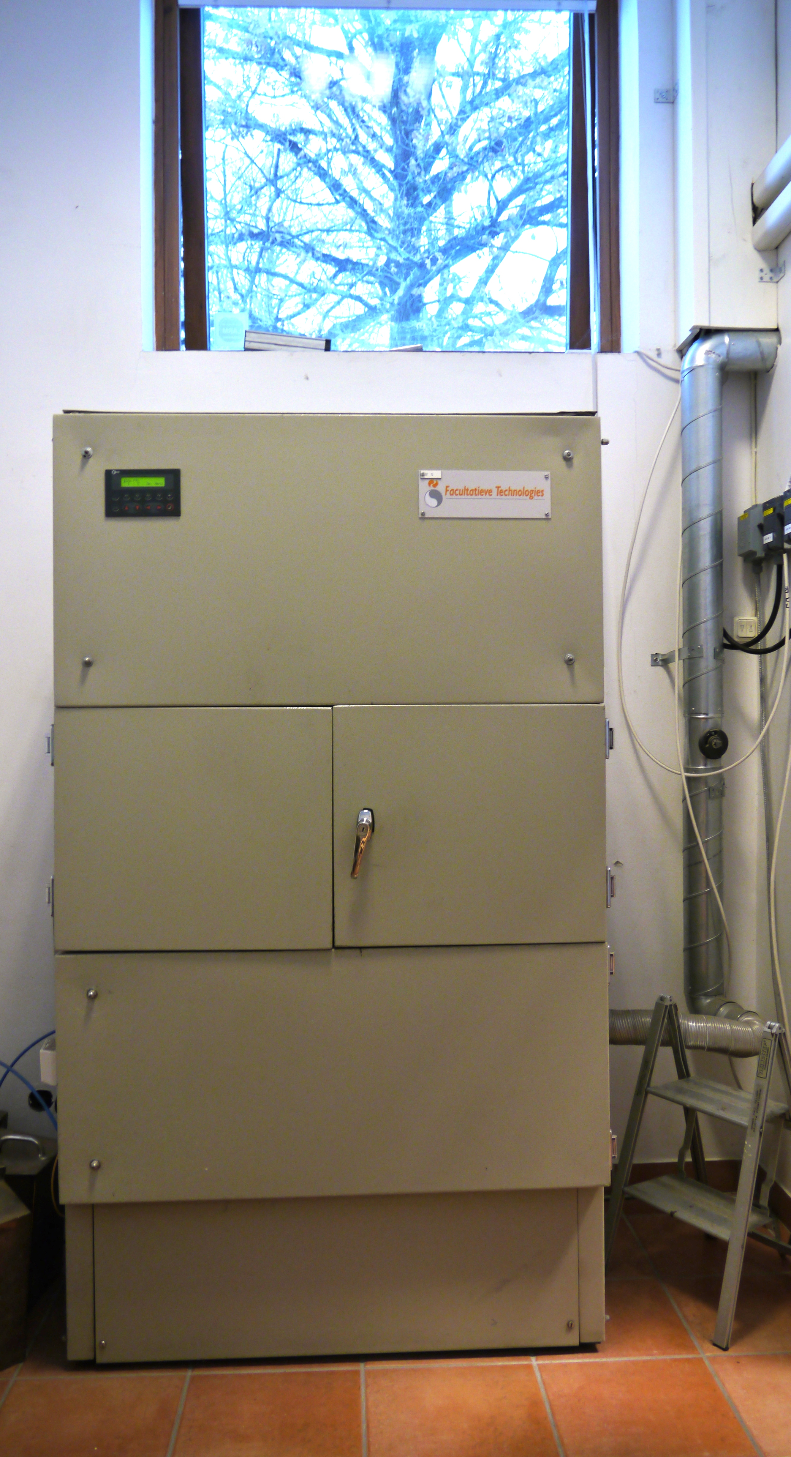 Grinding mill for crematory